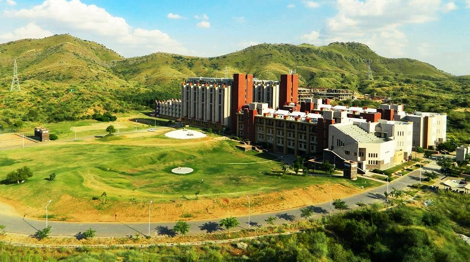 Birds eye view of NIIT University, Neemrana, Rajasthan, India